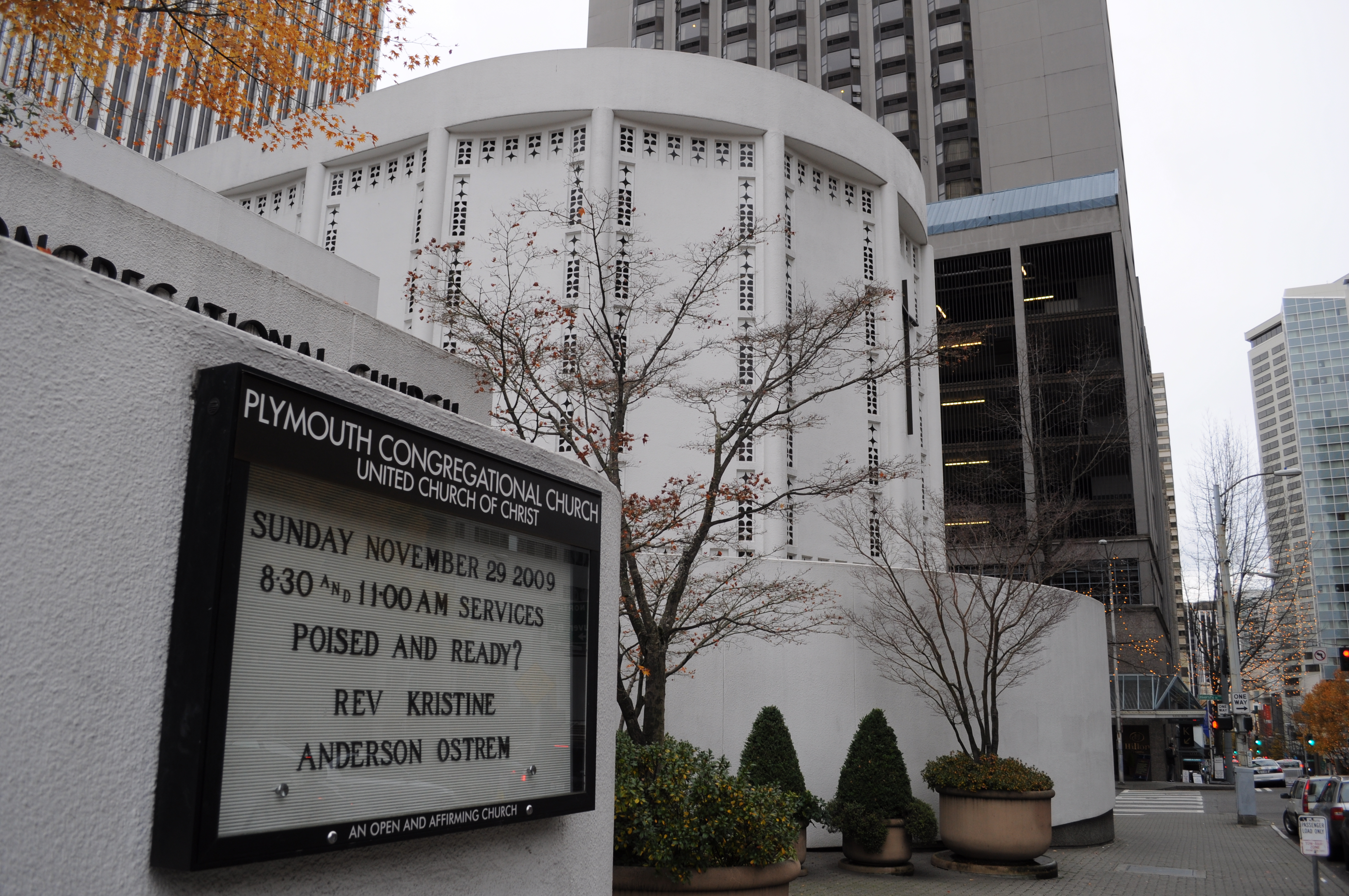 Cross atop Plymouth Congregational Church, Seattle, Washington.